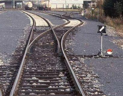 Simple manually operated railway turnout in Oulu, Finland.